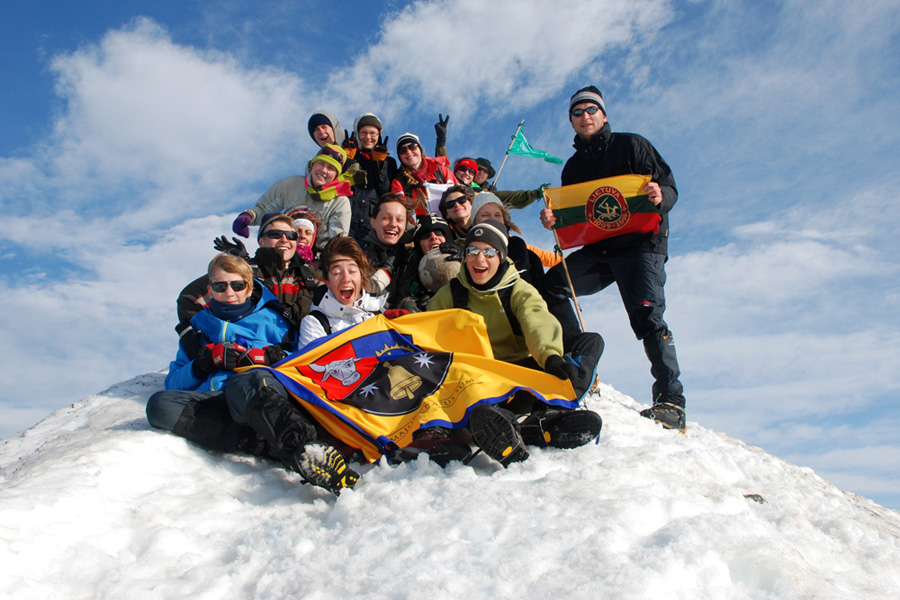 Hikers from Kaunas Jesuit Gymnasium in Kebnekaise - the highest mountain of Sweden (2104 m).